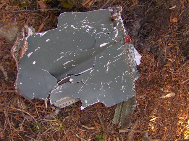 Wreckage from an U.S. Air Force McDonnell Douglas RF-4C Phantom II reconnaissance plane (s/n 66-0459) that crashed into the ridge between Inadu Knob and Old Black on 4 January 1984. Such remnants of the crash remain scattered about the area, especially along the Appalachian Trail between Inadu Knob and Old Black in the Eastern Great Smoky Mountains.